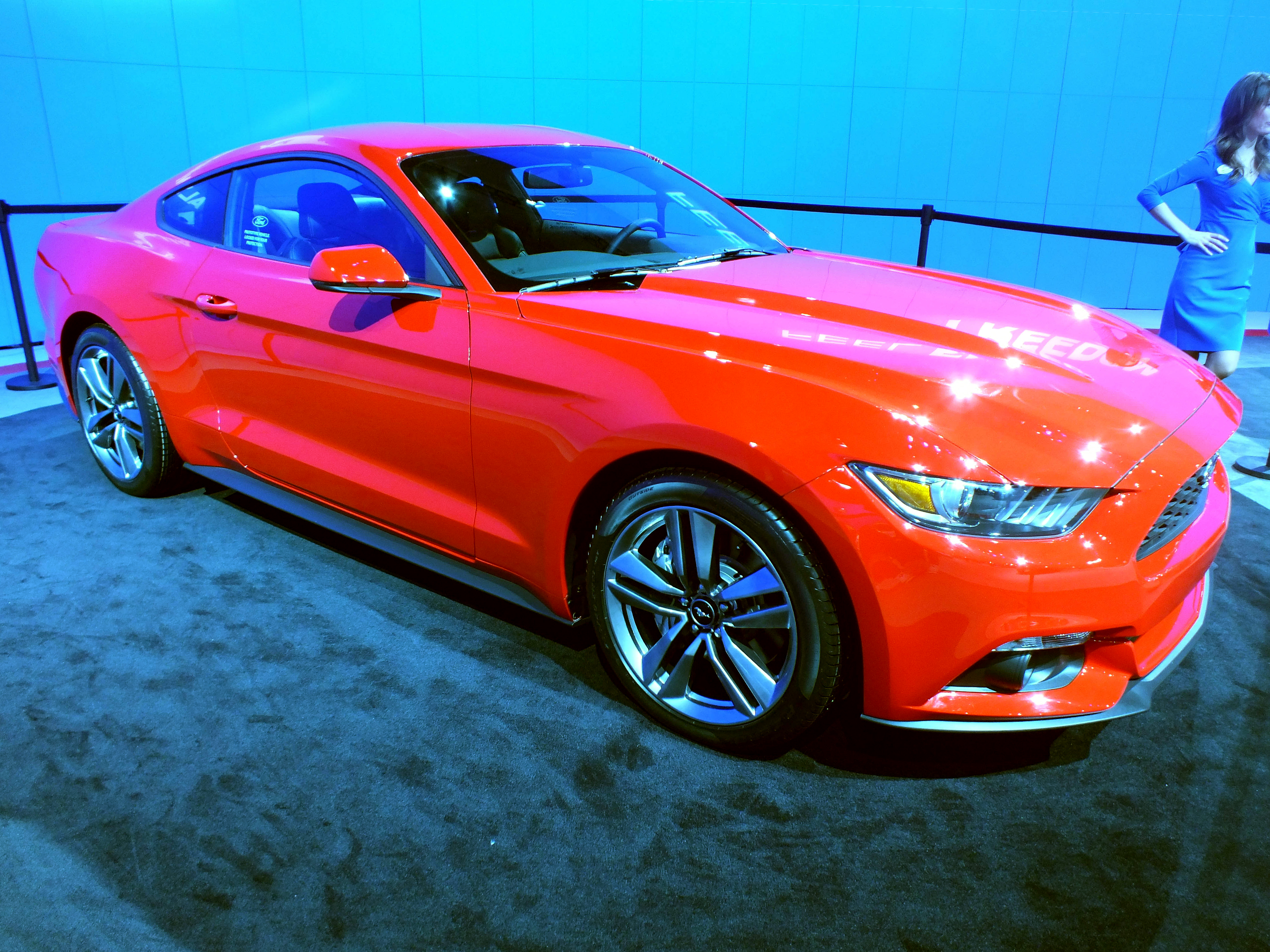 The 2015 Ford Mustang